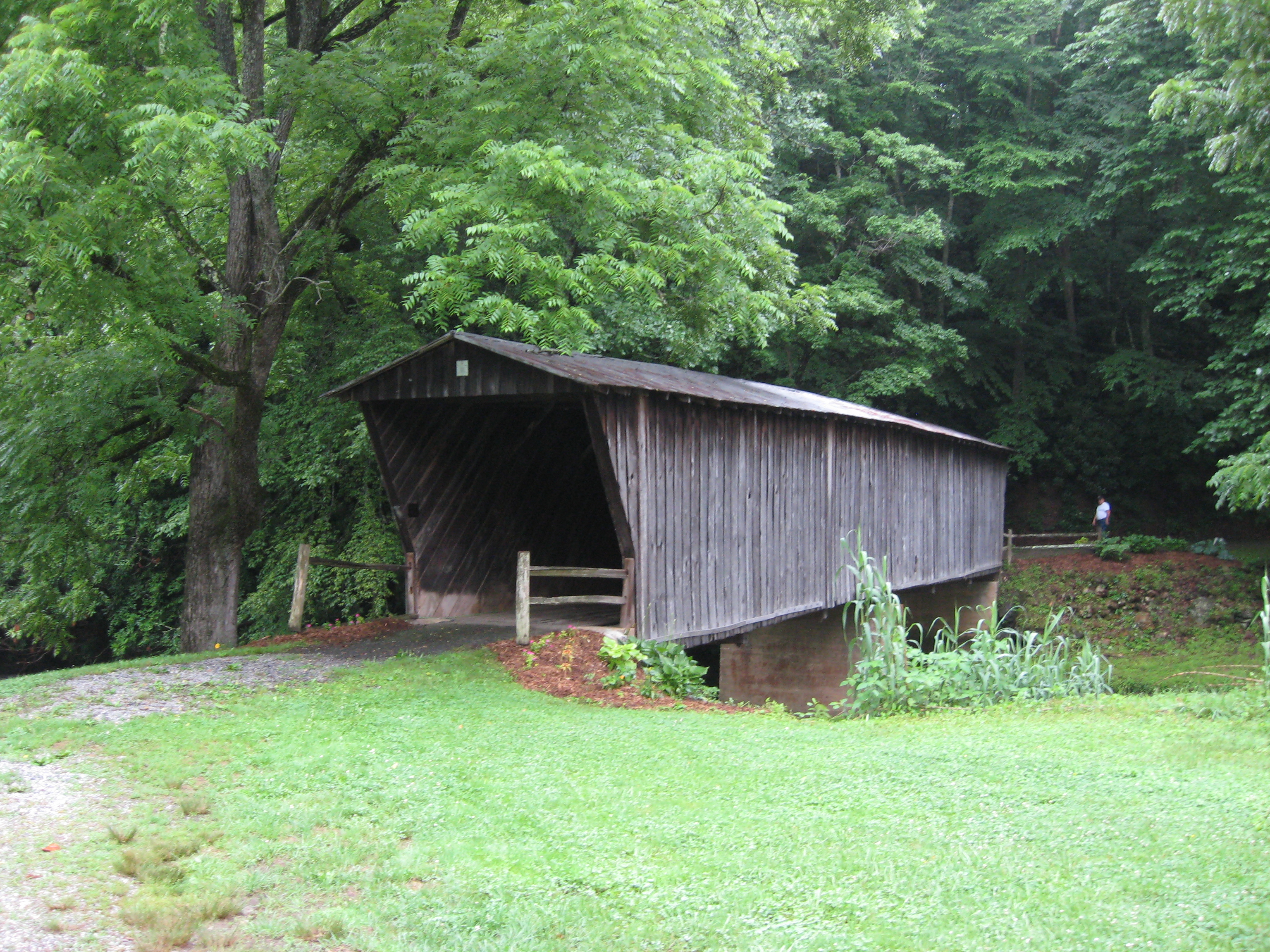 Bob White Covered Bridge, About 2.5 mi. S of Woolwine off VA 618, over Smith River Woolwine